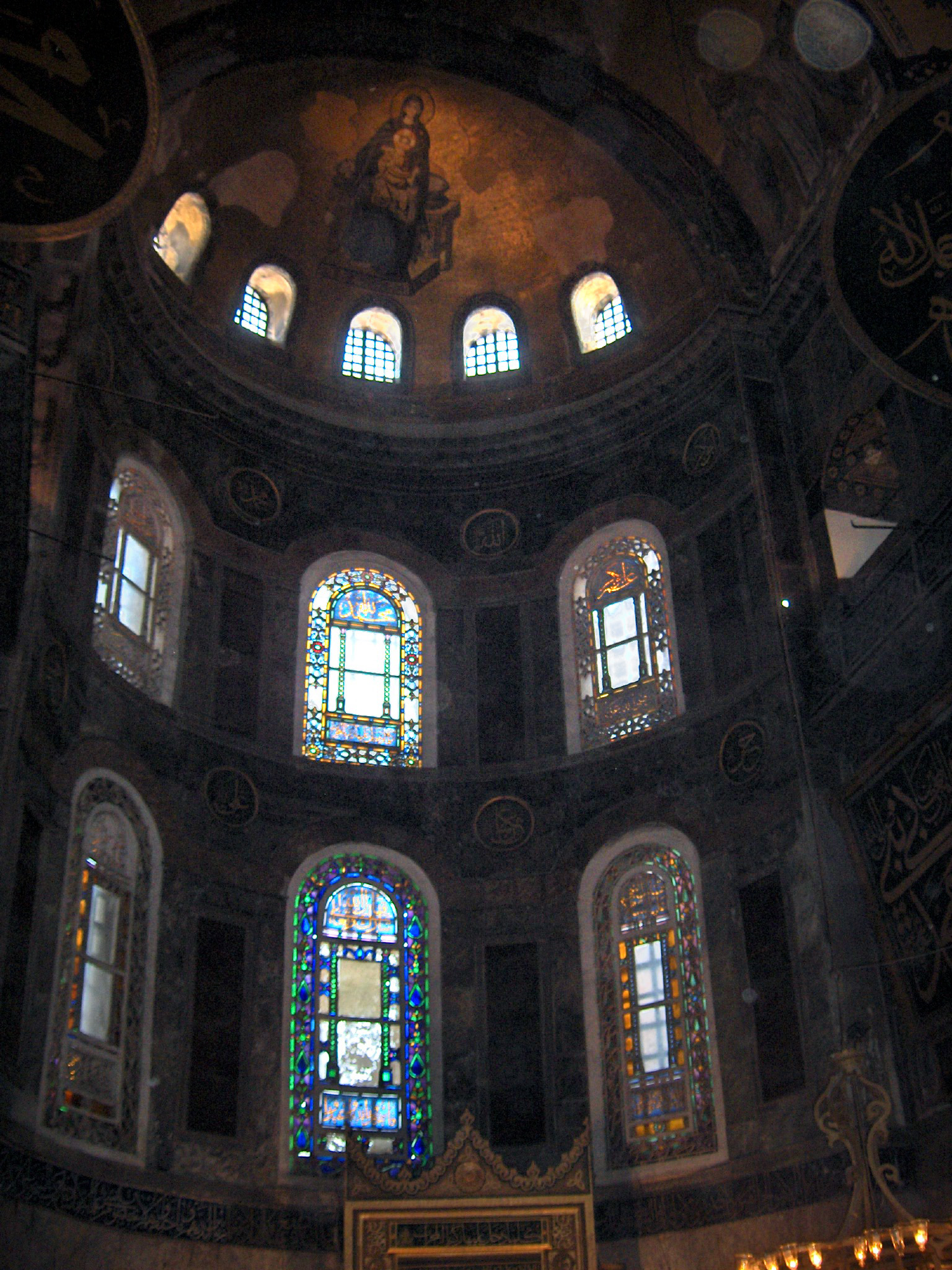 Hagia Sophia ; inside view : apse and half dome with Virgin Mary; Istanbul, Turkey